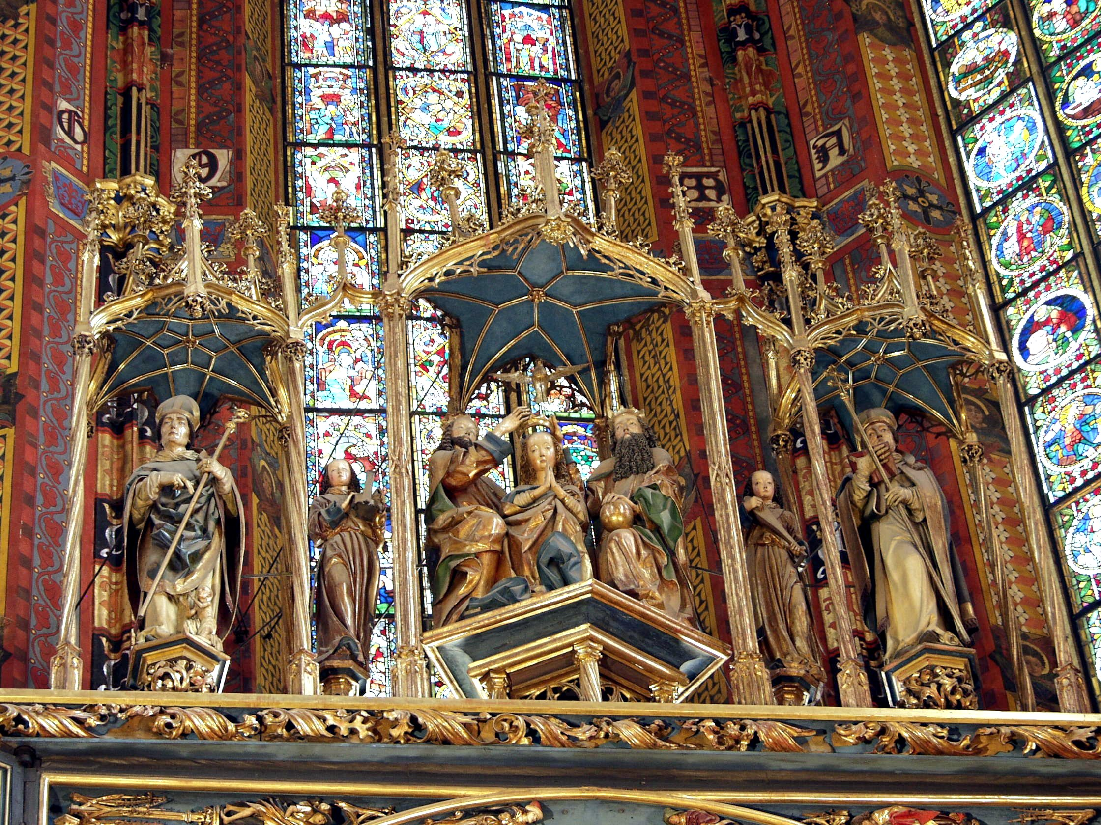 Altar of Veit Stoss, Top, St. Mary's coronation, St. Mary's Church, Krakow, Poland